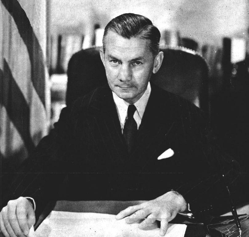 James Vincent Forrestal (15 February 1892 – 22 May 1949), in 1947. He had been Secretary of the Navy since 1940 and had just been appointed Secretary of Defence.